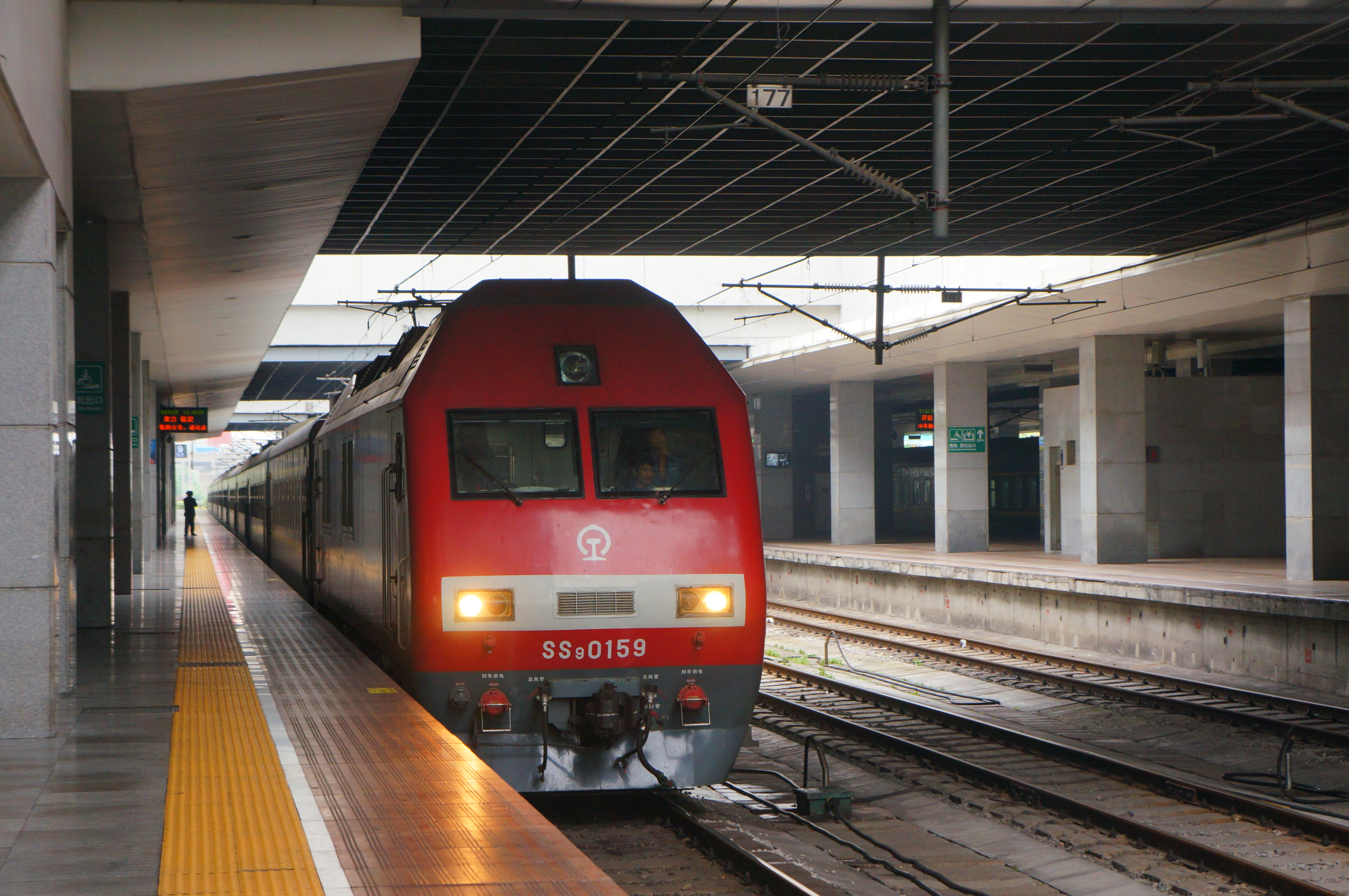 201705 SS9G-0159 hauls K849 arrives at Shanghai Station. It is not common to have a picture of the arrival of trains at SHA.